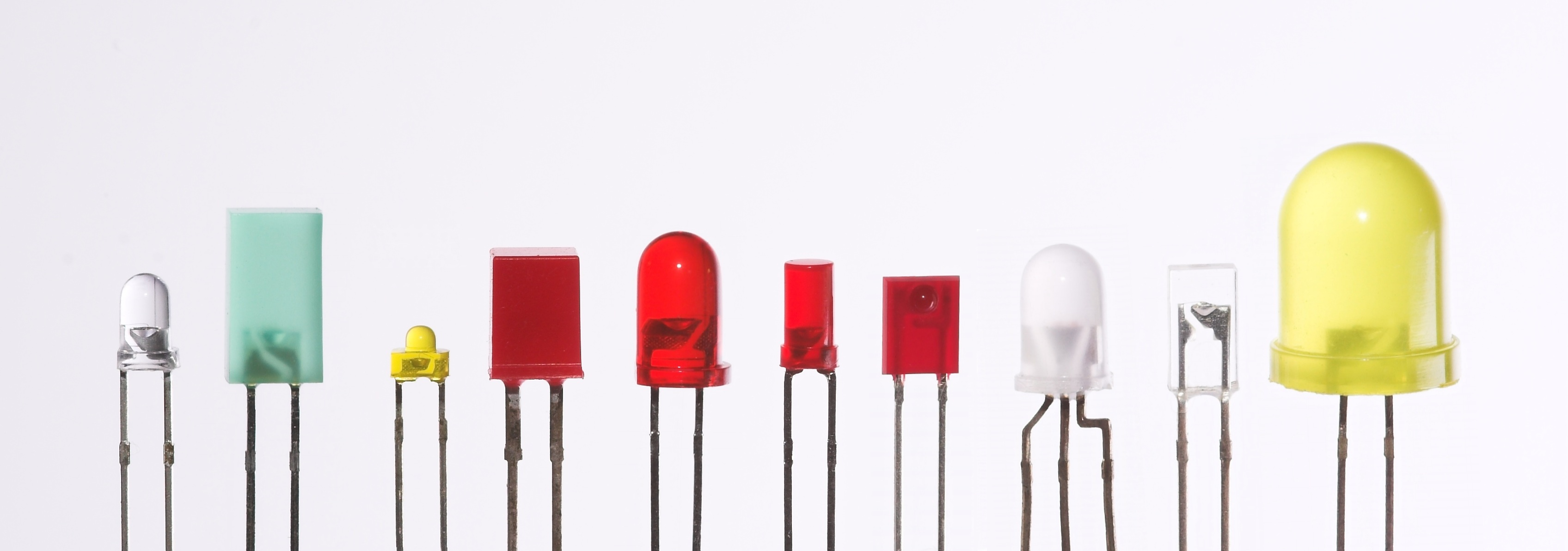 LEDs in different casings.